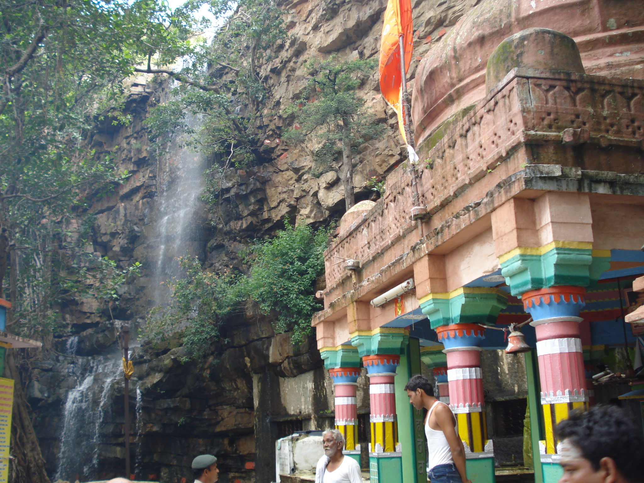 Sukhanand Ashram in Nimach district Madhya Pradesh